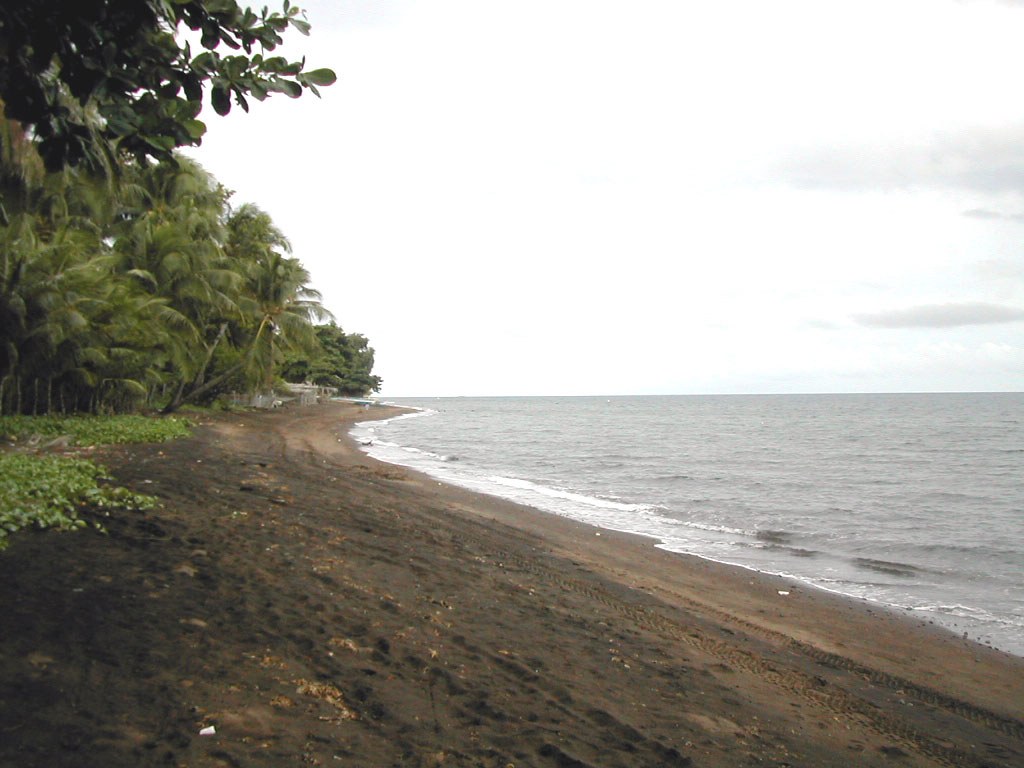 A beach along the coast at Oriental Village Beach Resort in Dauin, Negros Oriental.